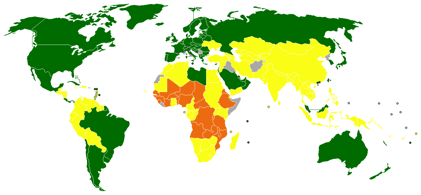 Countries fall into three broad categories based on their HDI: high, medium, and low human development. The arrows show the change in HDI from 2005 values. The 2007/2008 edition of the Human Development Report was published on November 27, 2007; in Brasília, Brazil. [1] (0.800 – 1.000) High (0.500 – 0.799) Medium (0.300 – 0.499) Low 2007 N/A